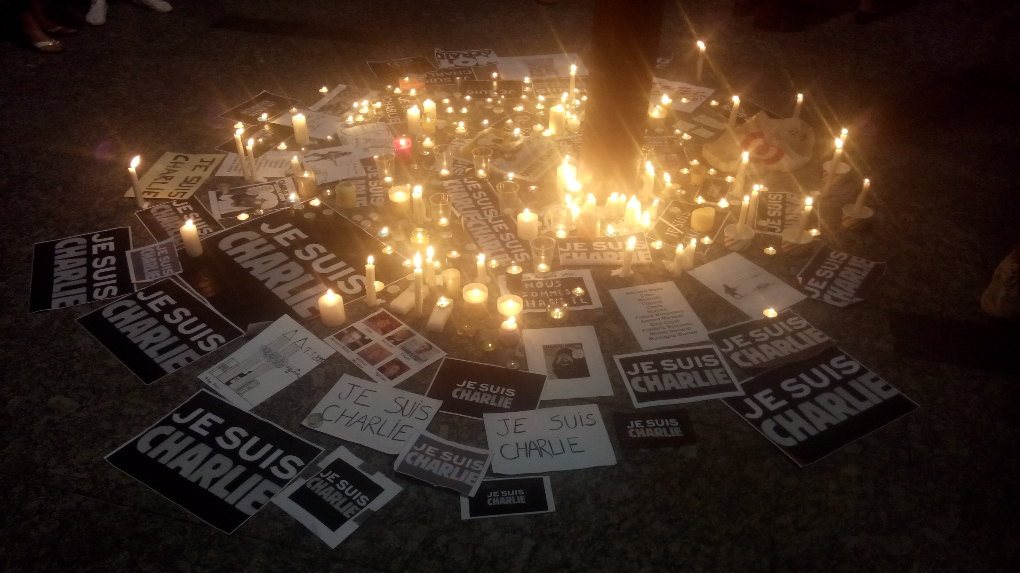 Brisbane (Queensland, Australia) rally in support of the victims of the 2015 Charlie Hebdo shooting.